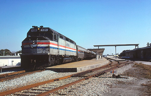 The Silver Star at St. Petersburg in 1982, two years before service was discontinued